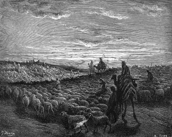 c 1750 BC, Abraham, founder of the Hebrew nation, journeying into the Land of Canaan with his family and flock of sheep.